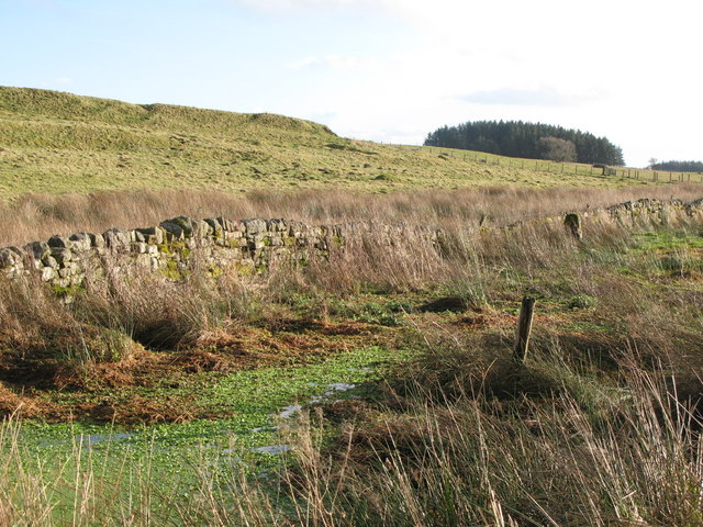 Coventina's Well Now the swampy source of a spring. "When the area was excavated in 1876, the top was choked with stones. Below came a mass of coins, followed by carved stones, altars, more coins, jars and incense-burners, pearls, brooches and other votive objects in an indiscriminate mass. In total, [John] Clayton retrieved 13,487 coins (four of gold, 184 of silver and the rest of bronze). The well was dedicated to a water-goddess named Coventina." {Source: J Collingwood Bruce's Handbook to the Roman Wall.} In the distance are the western ramparts of Brocolitia (horizon, left), Camps Plantation in NY8670 and the Mithraeum (just over 100 yards away, mostly hidden in a fold in the ground, by the fence in front of the right hand edge of the plantation).